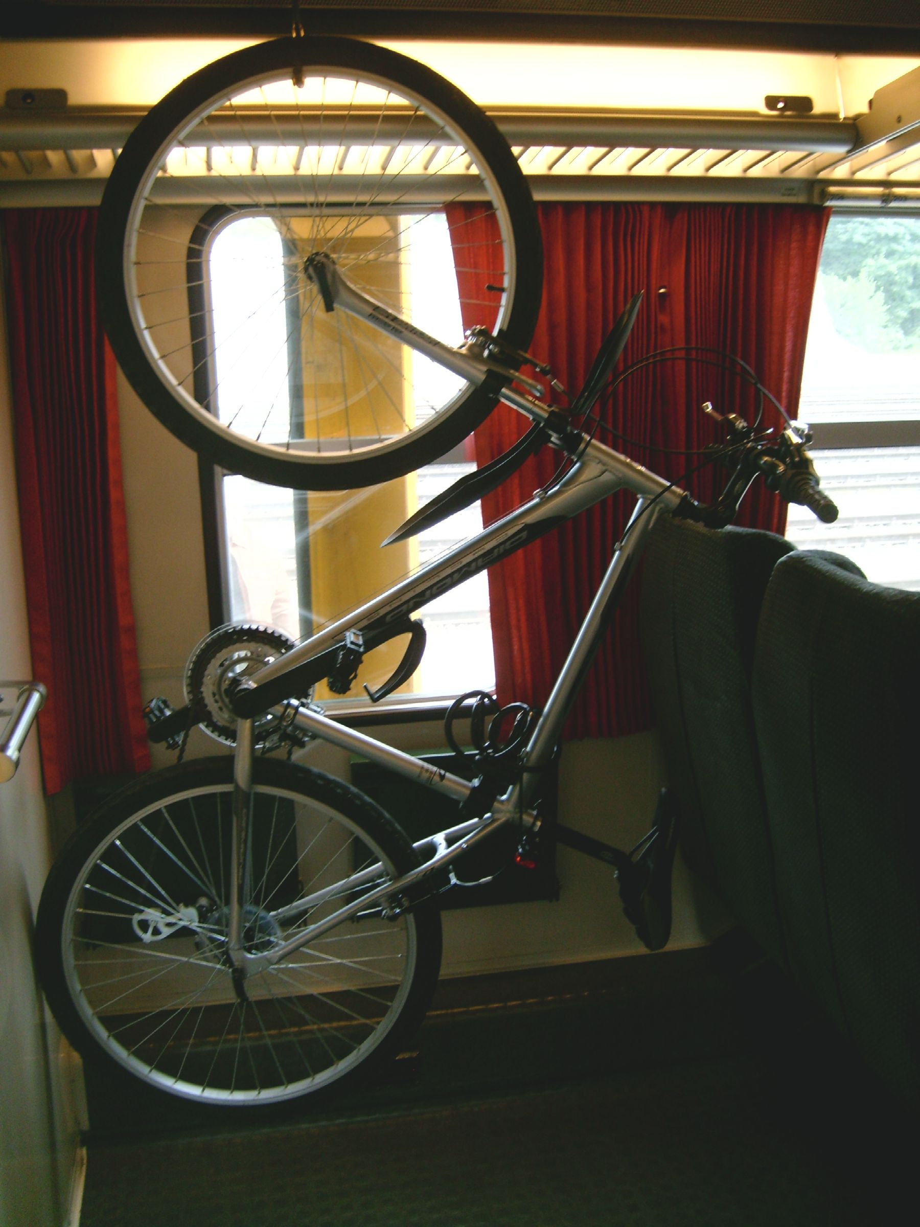 Bicycle hanging in a train in Luxembourg